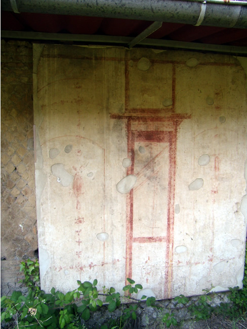 Wallpainting in the Caseggiato del Temistocle, in Ostia